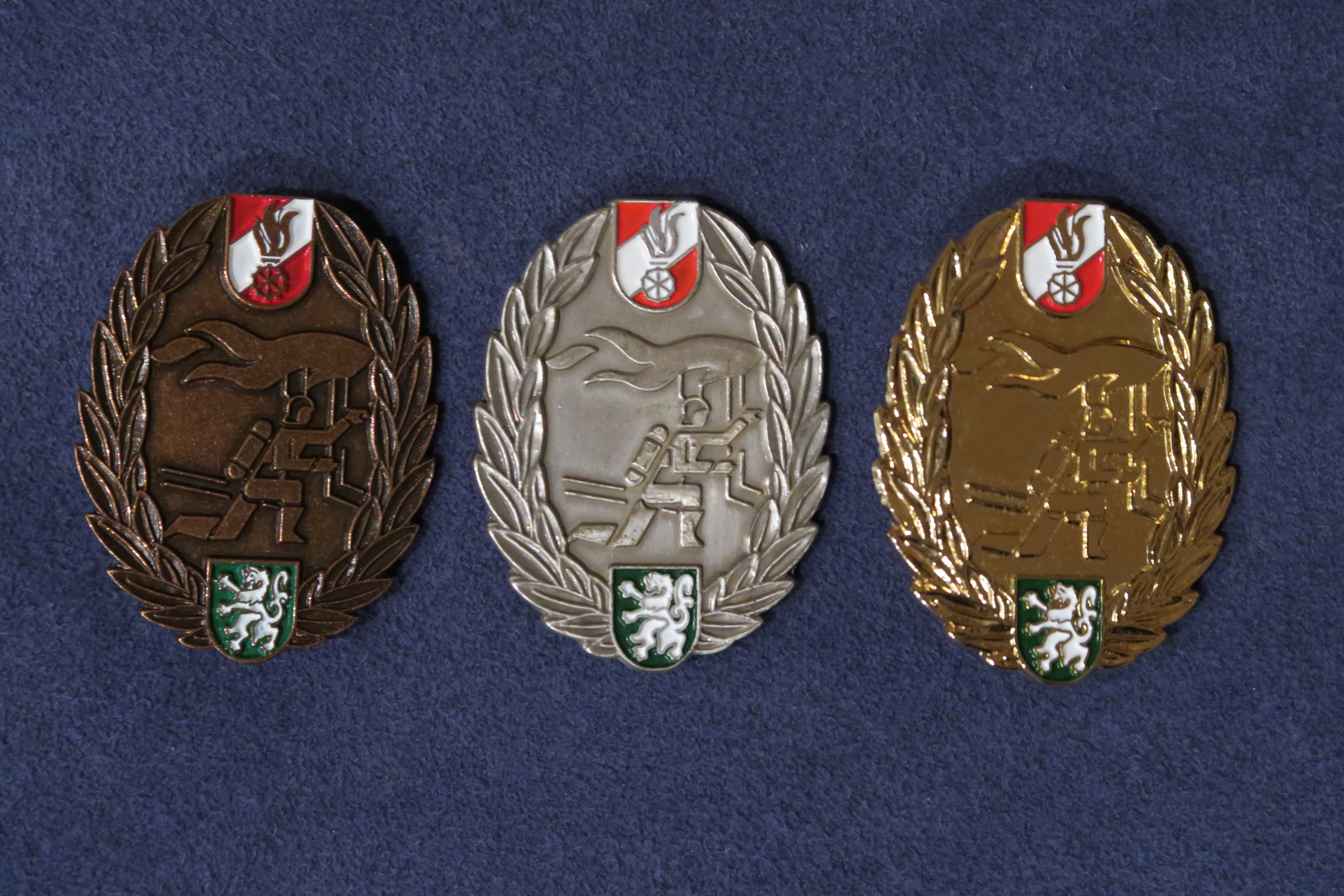 Firefighting in Styria